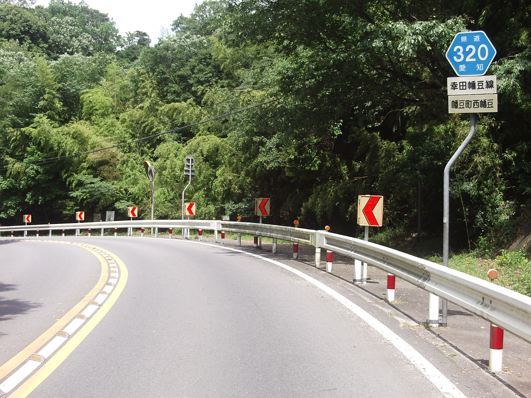 Aichi prefectural road No.320 in Nishihazucho, Nishio, Aichi.